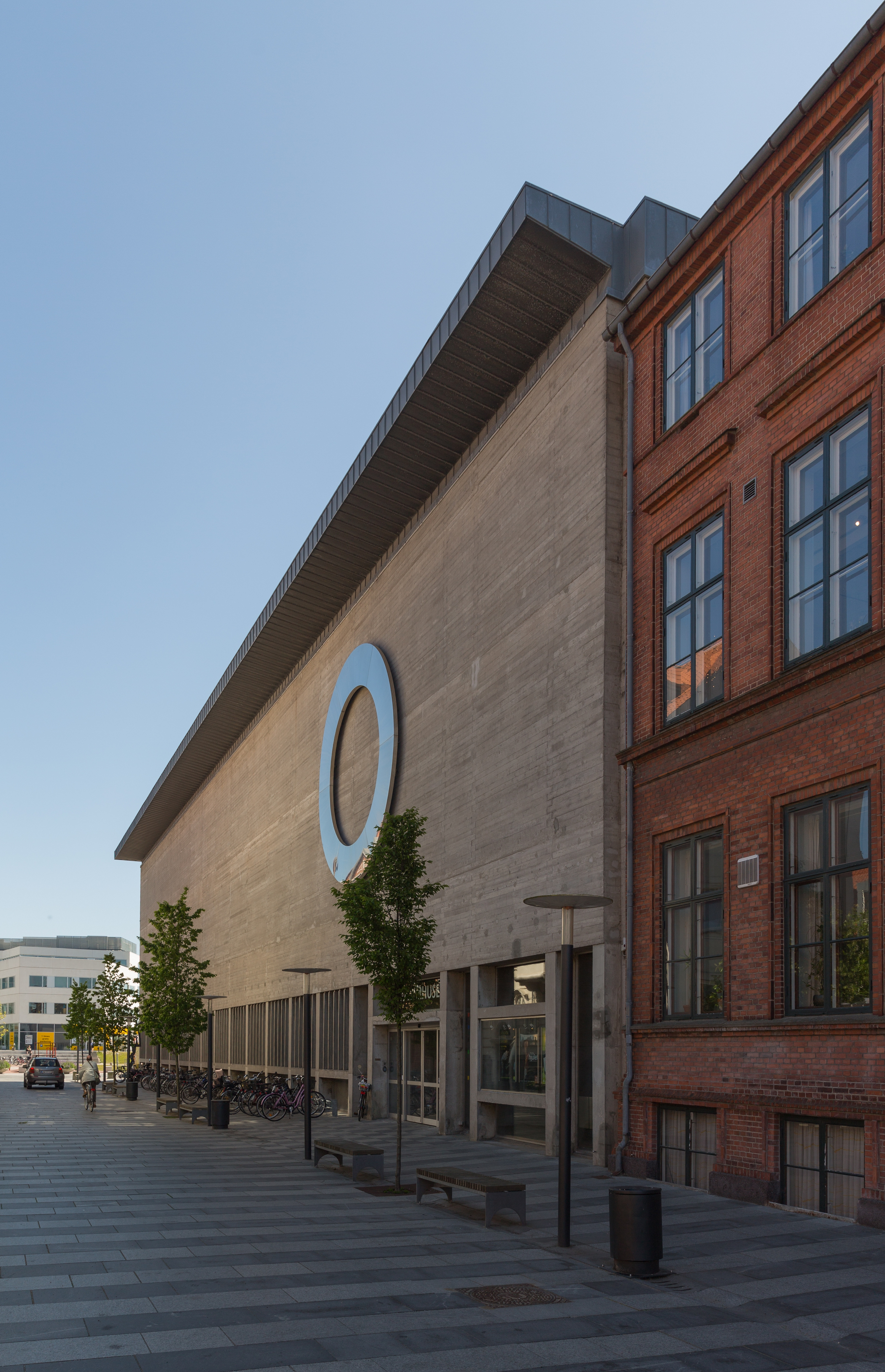 Randers Museum of Art Native nameRanders KunstmuseumLocationStemannsgade 28900 RandersRandersDenmarkCoordinates56° 27′ 38″ N, 10° 02′ 27″ E Established1891Web pageRanders KunstmuseumAuthority control : Q3615336 VIAF: 130218583 ISNI: 0000 0001 2331 2371 ULAN: 500310485 LCCN: n83000987 SUDOC: 031552412 WorldCat institution QS:P195,Q3615336